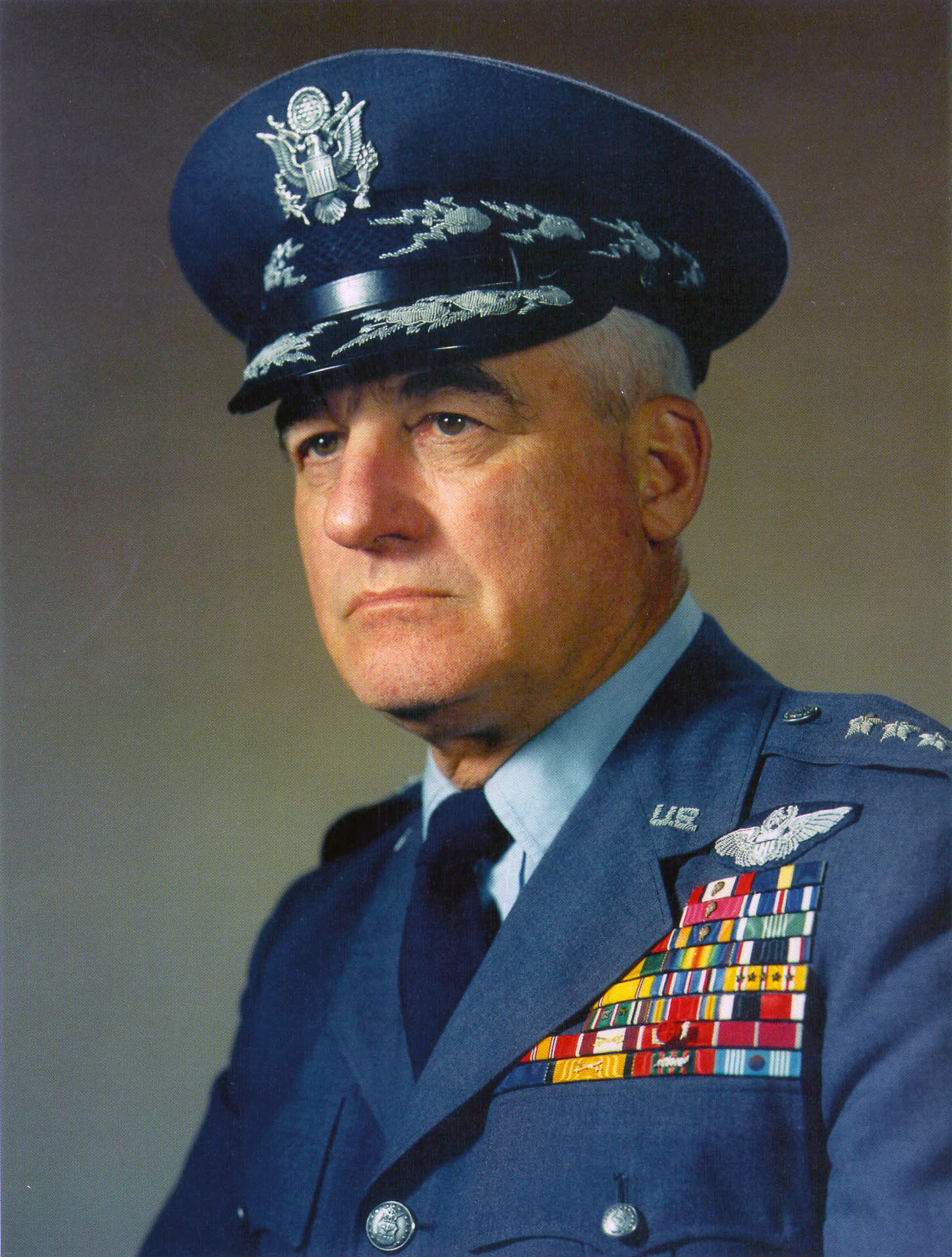 U.S. Air Force General Nathan F. Twining, Chairman of the Joint Chiefs of Staff. From: Joint Chiefs of Staff website See also: Image:Nathan Twining photo portrait head and shoulders.jpg